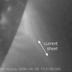 An example of a coronal cloud at half decentralization. The inner portion is still gas with the magnetic rope visble, but the outer area is gaseous and already expanded quite far into space.